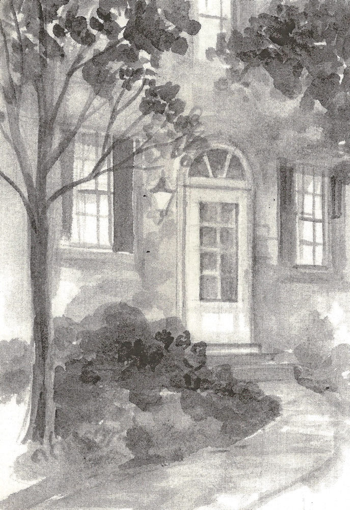 Close House Freiman Stoltzfus.jpg